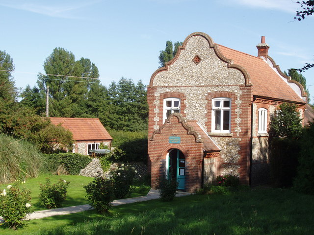 Museum of shells. Tucked away in the Glaven Valley of North Norfolk is this Shell Museum. It houses the most remarkable collection of seashells in the UK as well as containing fossils, birds' eggs, agate ware and other local archaeological finds. It is next to St. Martin's Church, Glandford.